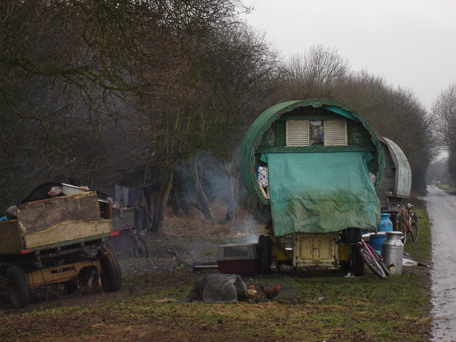 Roadside Camp Crankley Lane The horses were tethered on the grass at the side of the lane